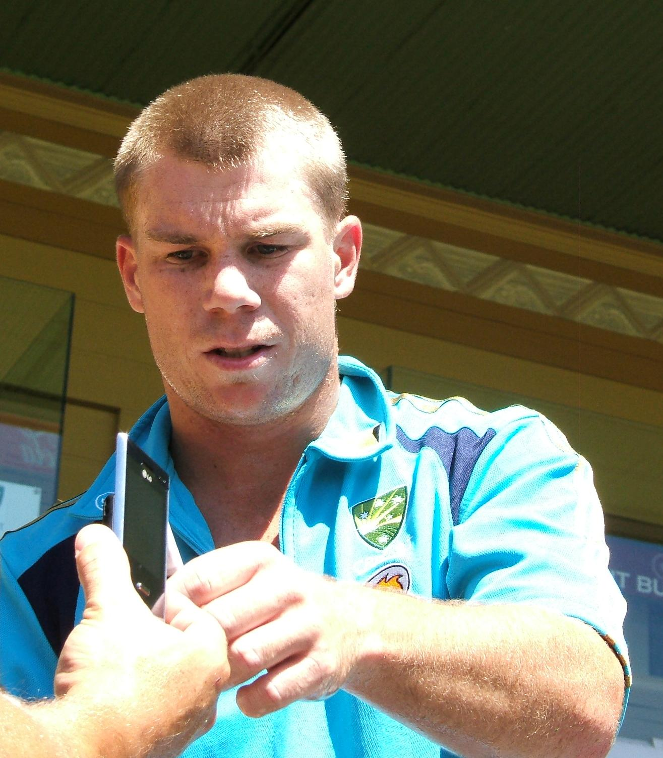 David Warner at a training session at the Adelaide Oval